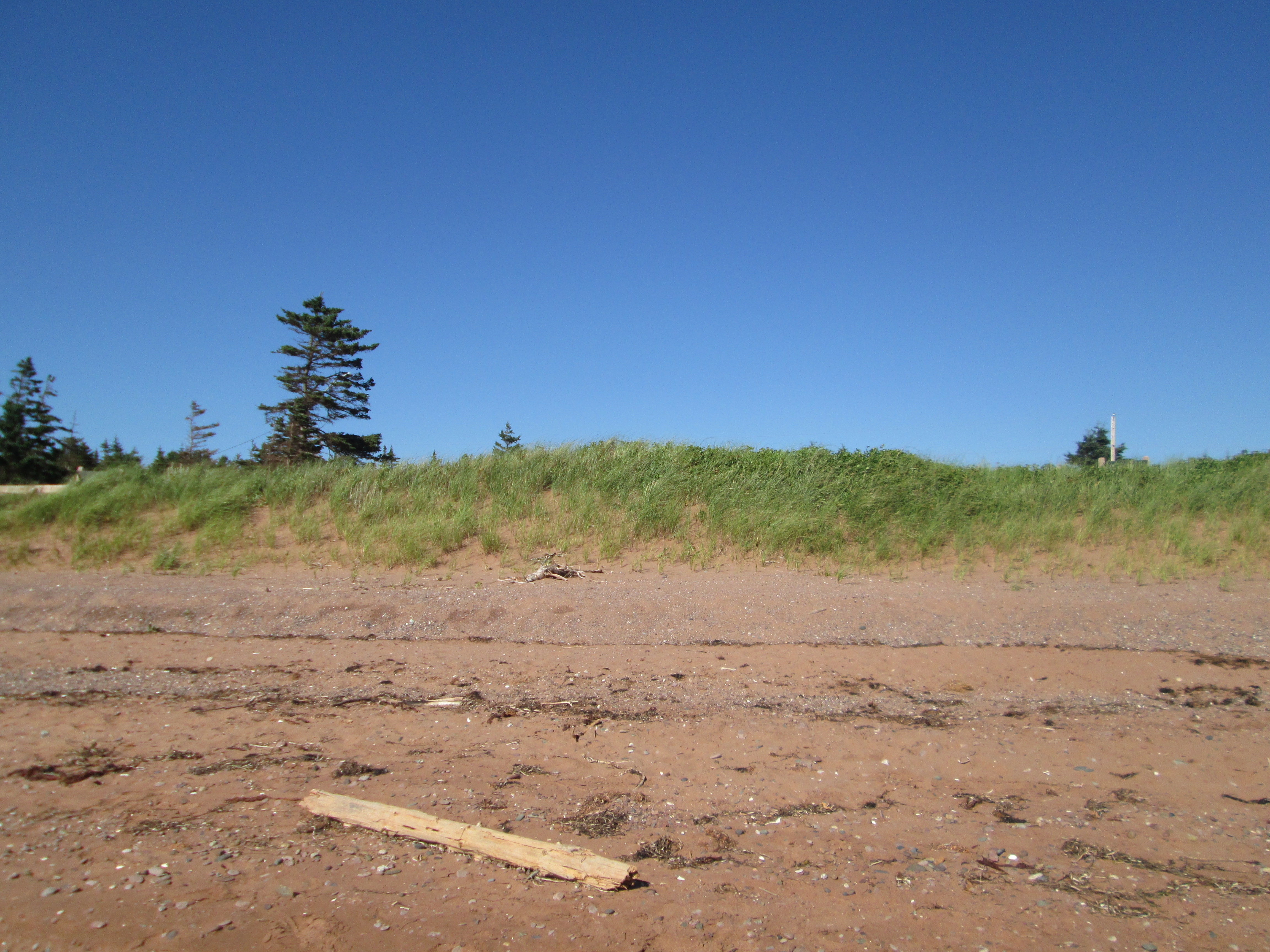 July 22, 2017